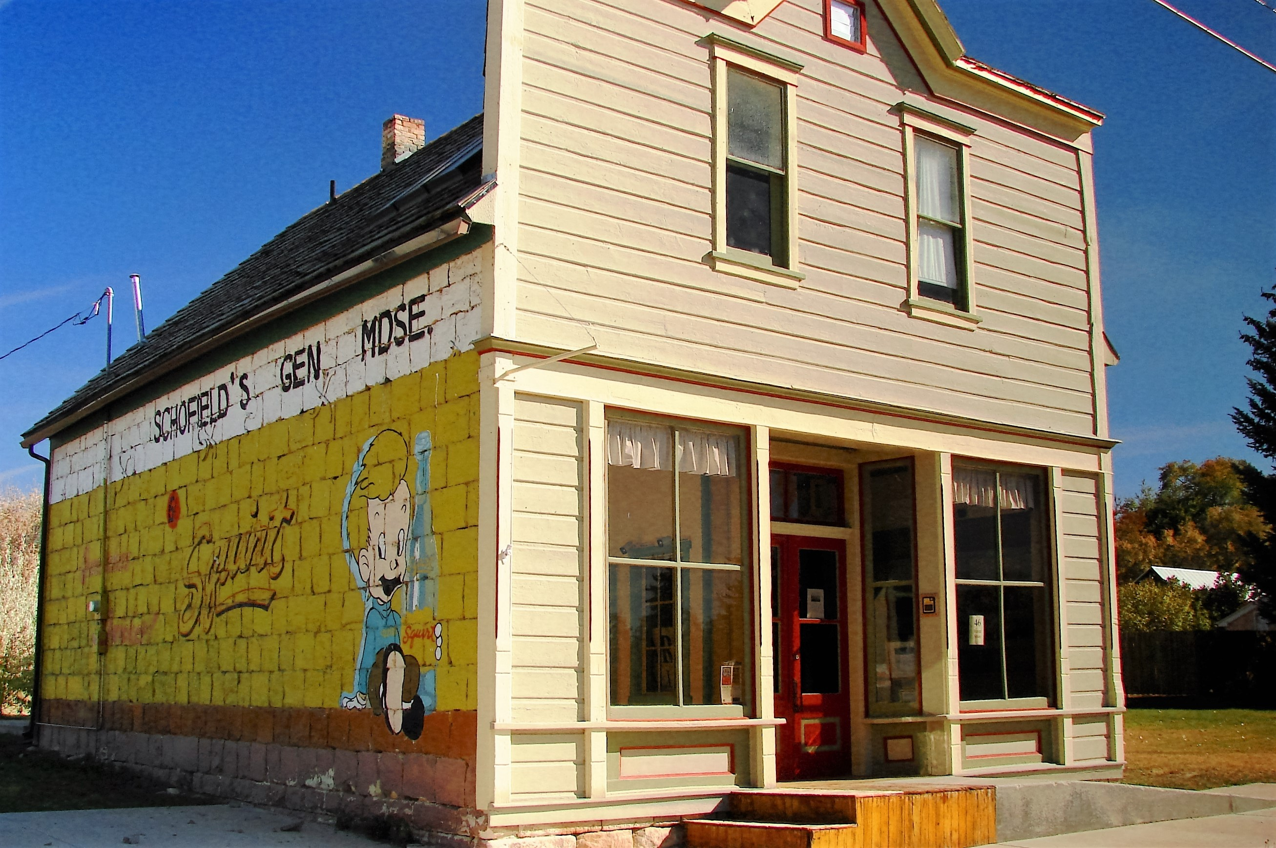 Located in the Spring City, Utah National Historical District